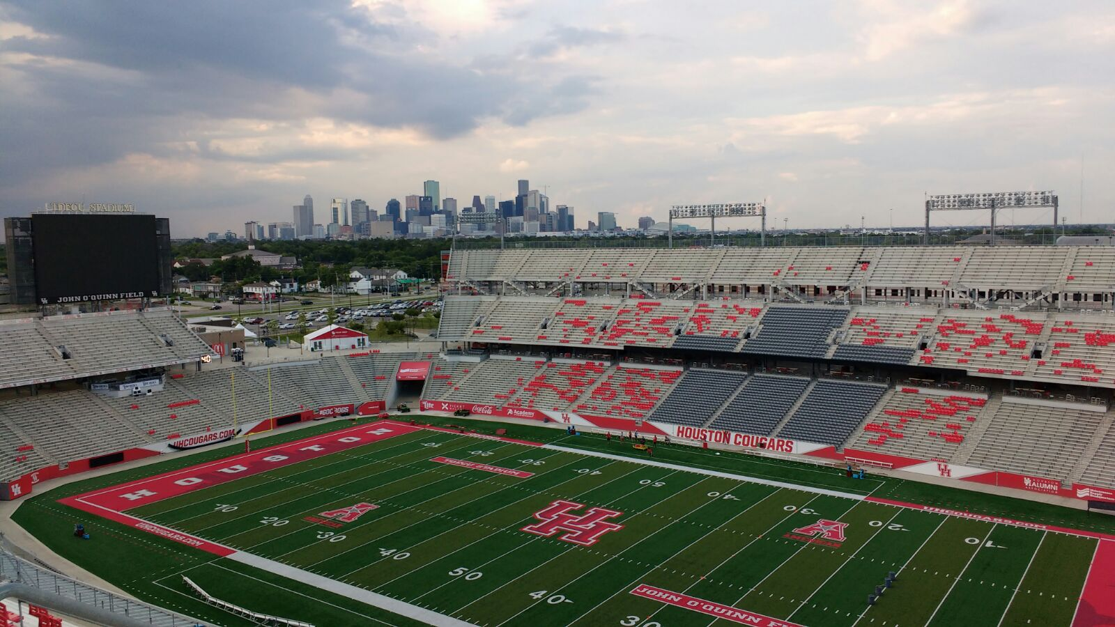 Its the Houston downtown(TX) view from the prestigious University of Houston's TDECU Football Stadium.